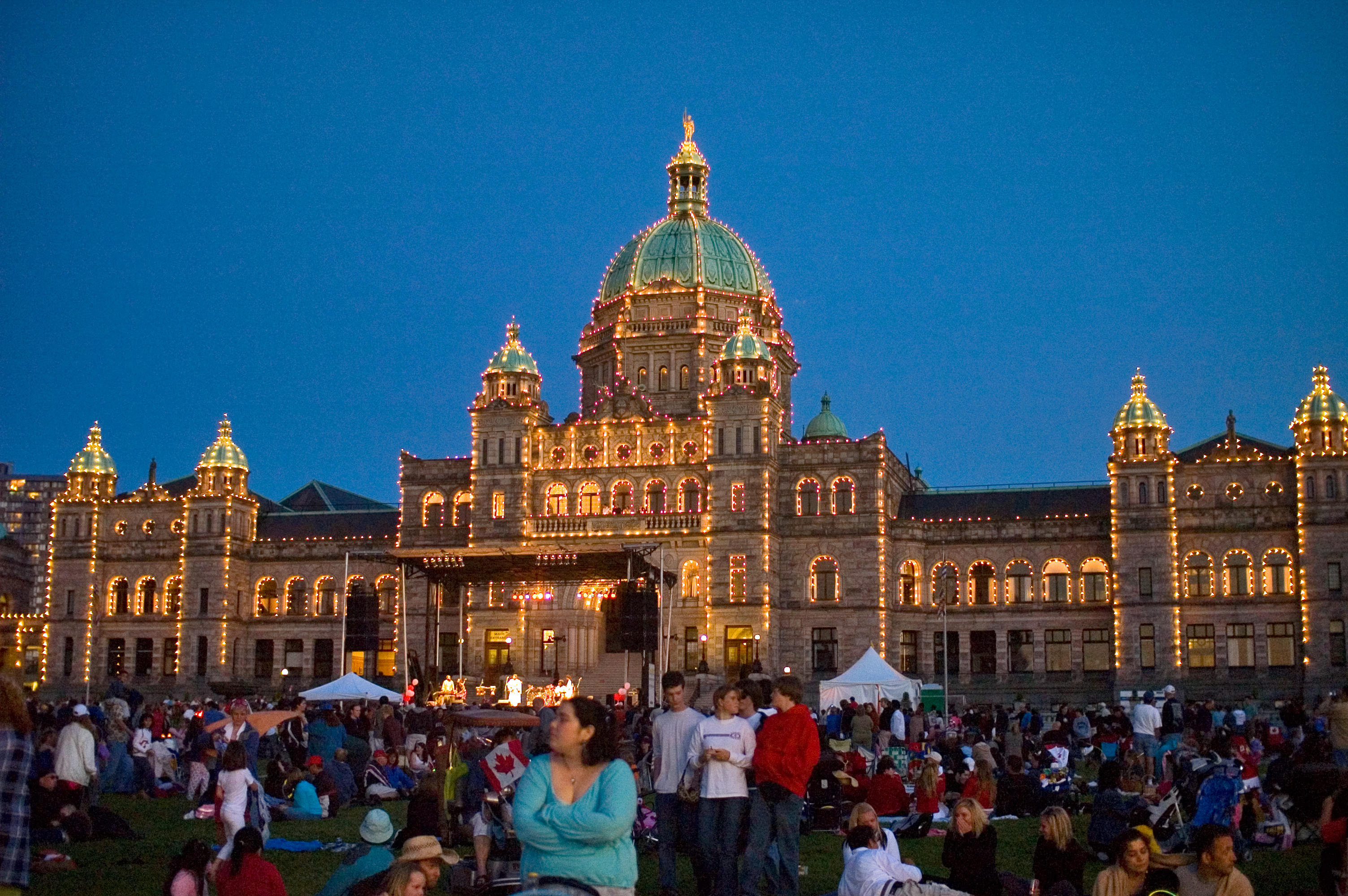 Canada Day celebrations in 2006 in front of the British Columbia Legislature in Victoria